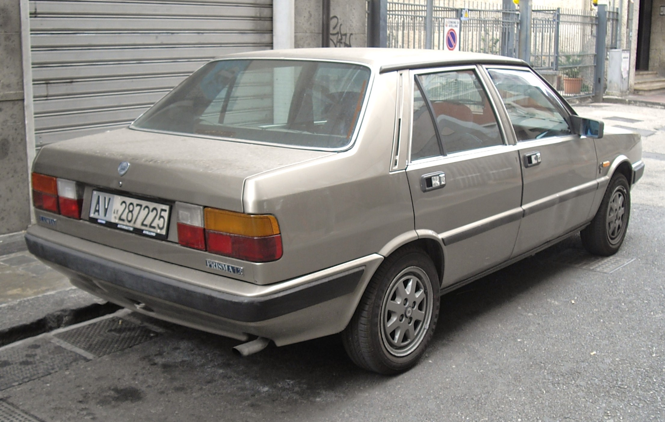 Lancia Prisma